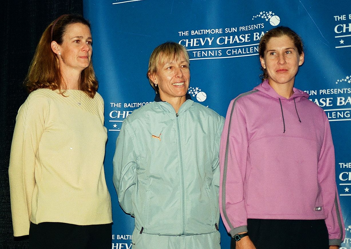 From Pam Shriver tennis classic Baltimore M.D. December 12, 2002